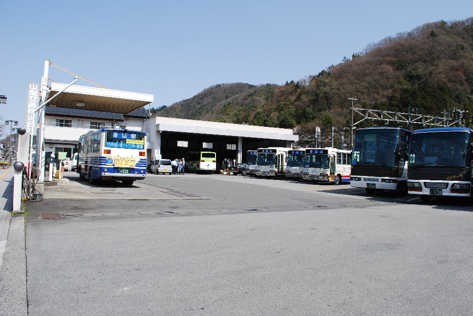 Yamako Town Coach Minobu Depot